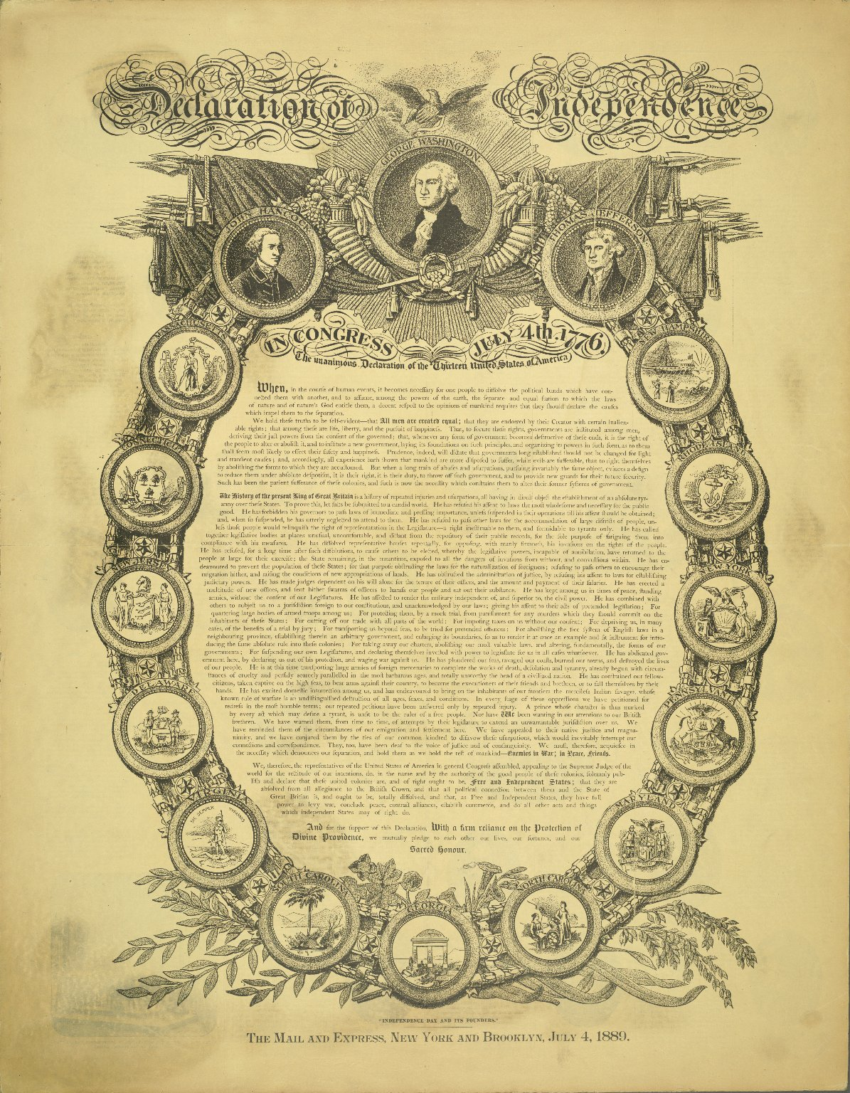 Collection: Cornell University Collection of Political Americana, Cornell University Library Repository: Susan H. Douglas Political Americana Collection, #2214 Rare & Manuscript Collections, Cornell University Library, Cornell University Title: Declaration of Independence Date Made: 1889 Measurement: Sheet (unfolded): 26 1/2 x 20 1/2 in.; 67.31 x 52.07 cm Classification: Prints Persistent URI: There are no known U.S. copyright restrictions on this image. The digital file is owned by the Cornell University Library which is making it freely available with the request that, when possible, the Library be credited as its source.